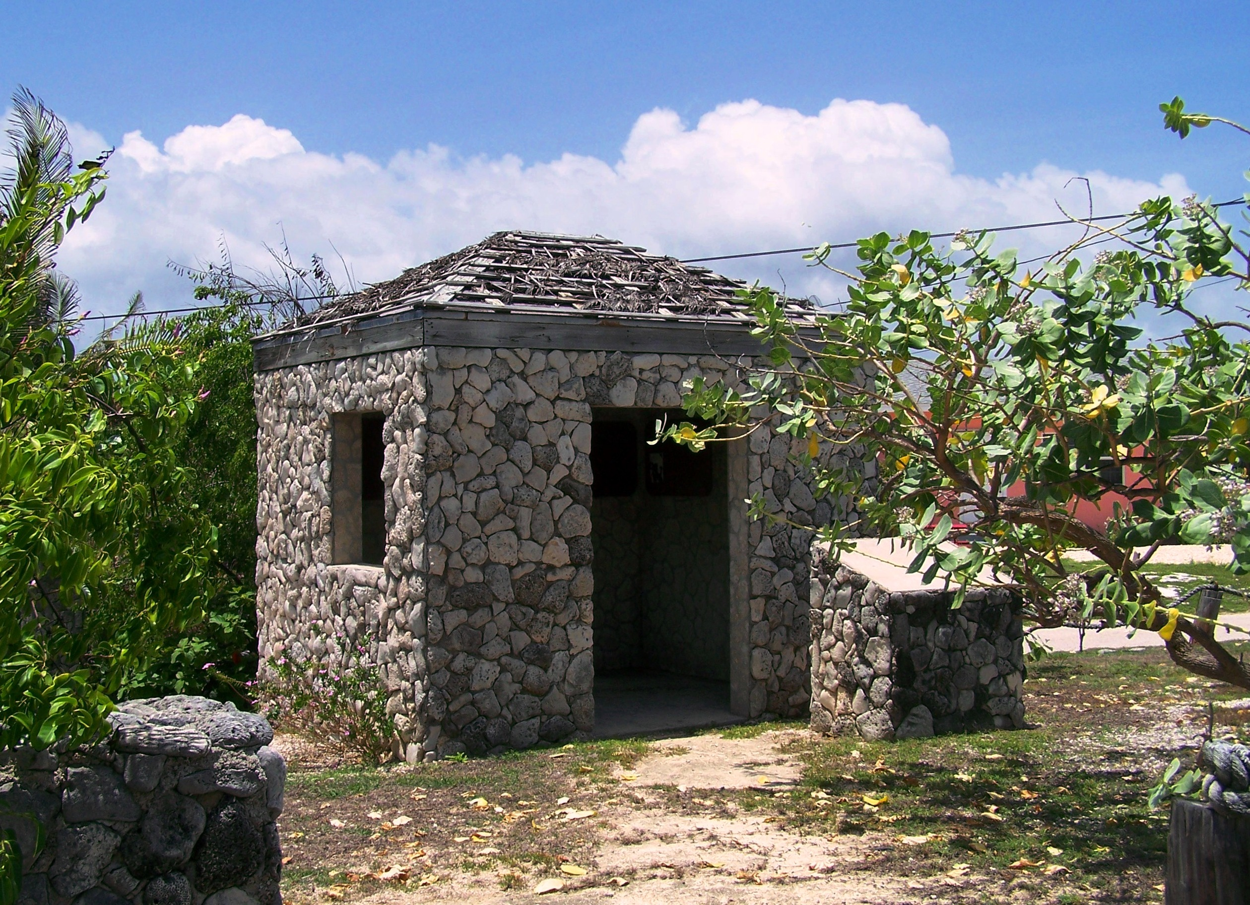 Bodden Town Guard House constructed to house and display historical details about Bodden Town.